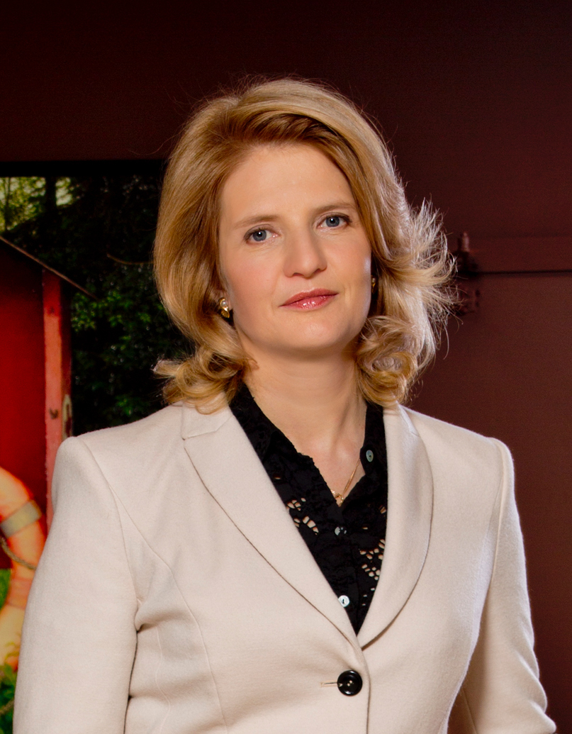 Natalya Kaspersky/Kasperskaya, owner and CEO of 'InfoWatch' group of companies, focused on developing solutions to protect corporate confidential data from leakage. The former Chairwoman of Russian antivirus security software company Kaspersky Lab.